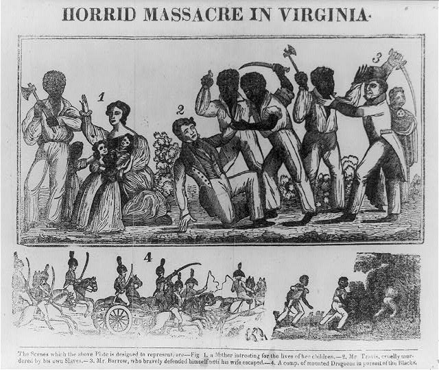 19th Century woodcut depiction of the Southampton Insurrection. Note part of the upper part of this woodcut was later reused in 1835/1836 during the Seminole War at Library of Congress